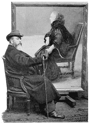 Photograph of French painter Albert Besnard from L'Illustration, No. 3252, 24 Juin 1905